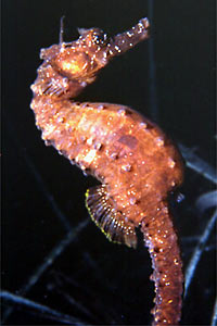 Hippocampus hippocampus